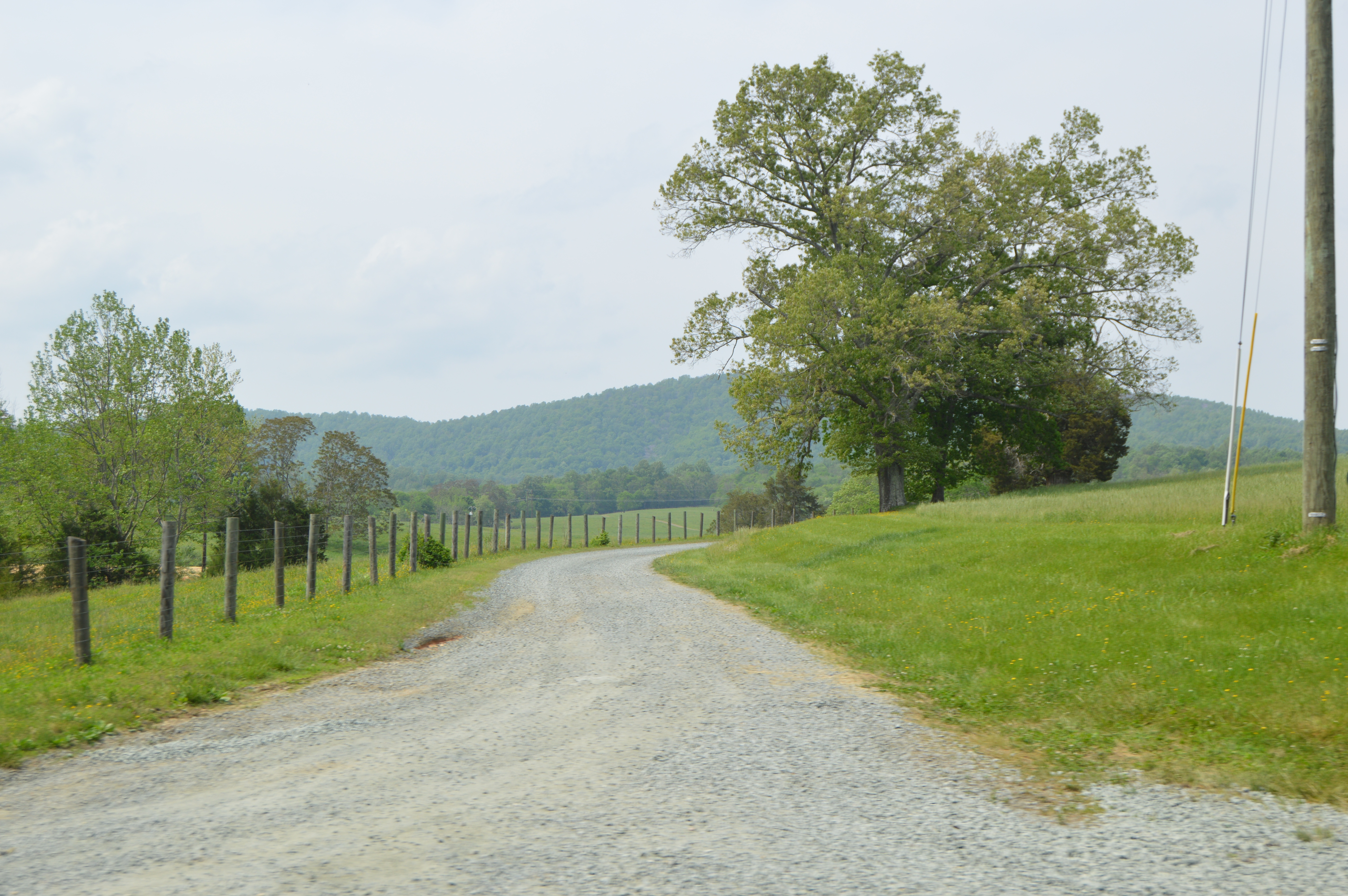 The entrance to the Edge Hill estate, located on State Route 22 east of Charlottesville in Albemarle County, Virginia, United States. The estate is listed on the National Register of Historic Places.